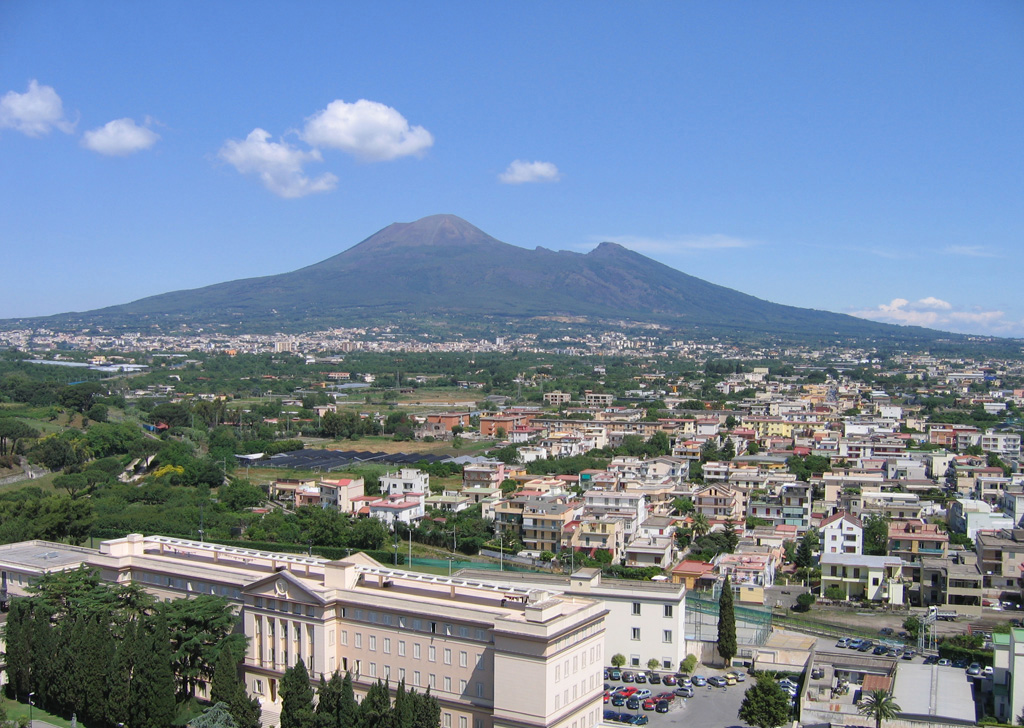 Pomei sanctuary